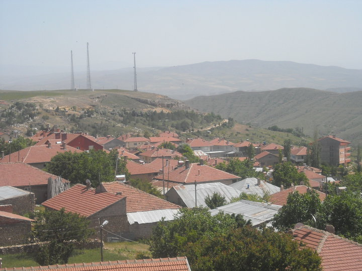 Minareden genel görünüm